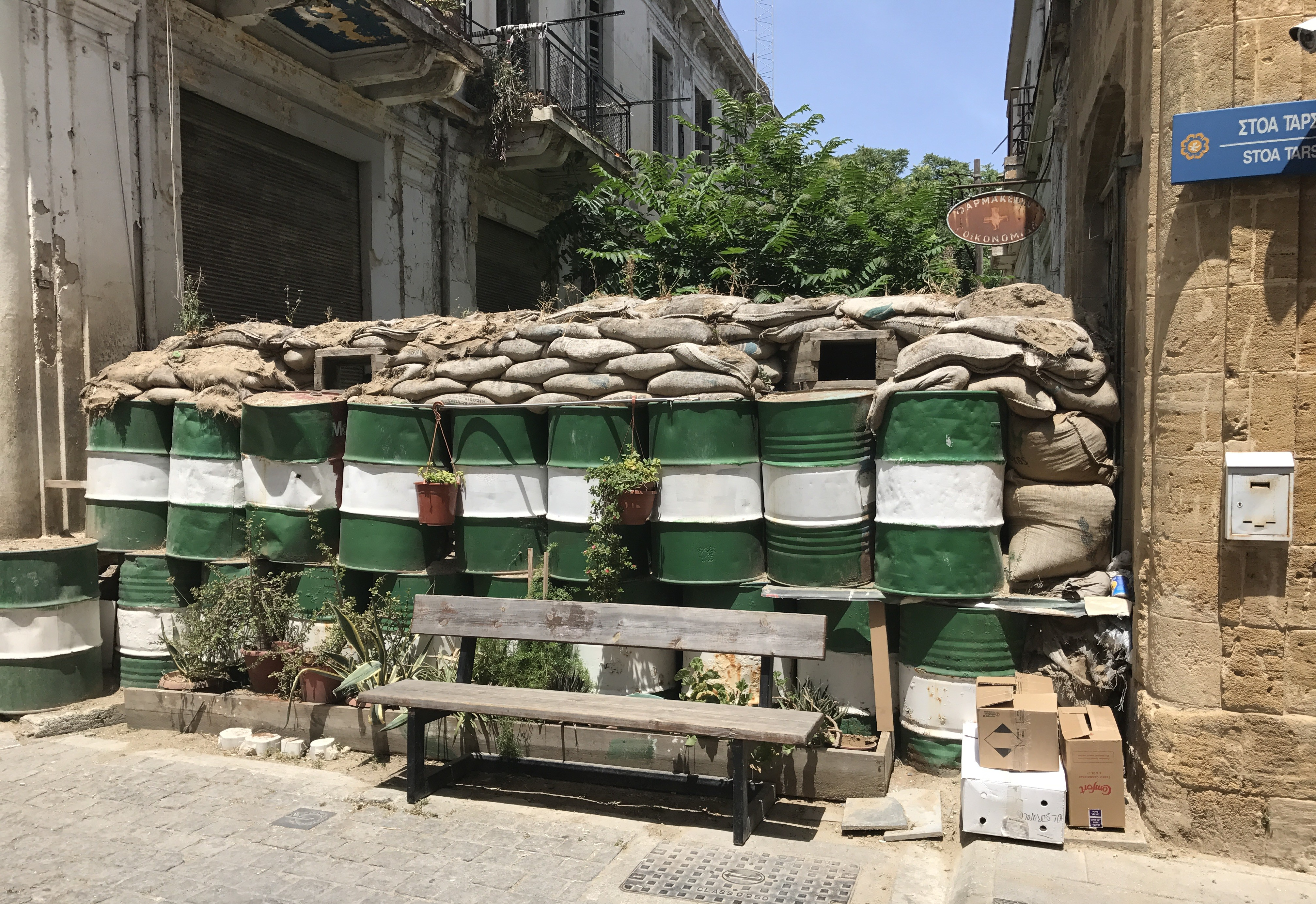 Road block in Nicosia